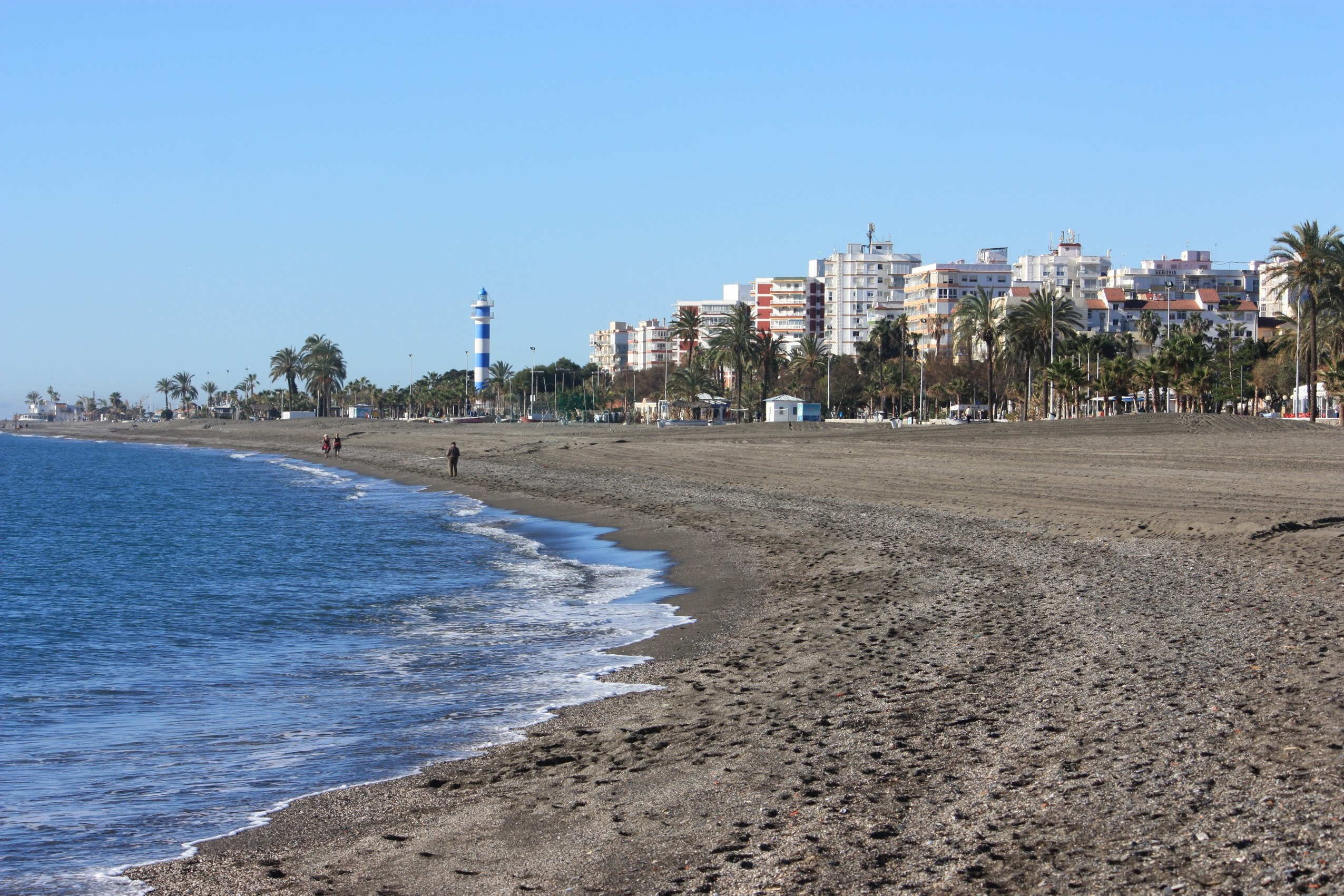 Torre del Mar, the beach